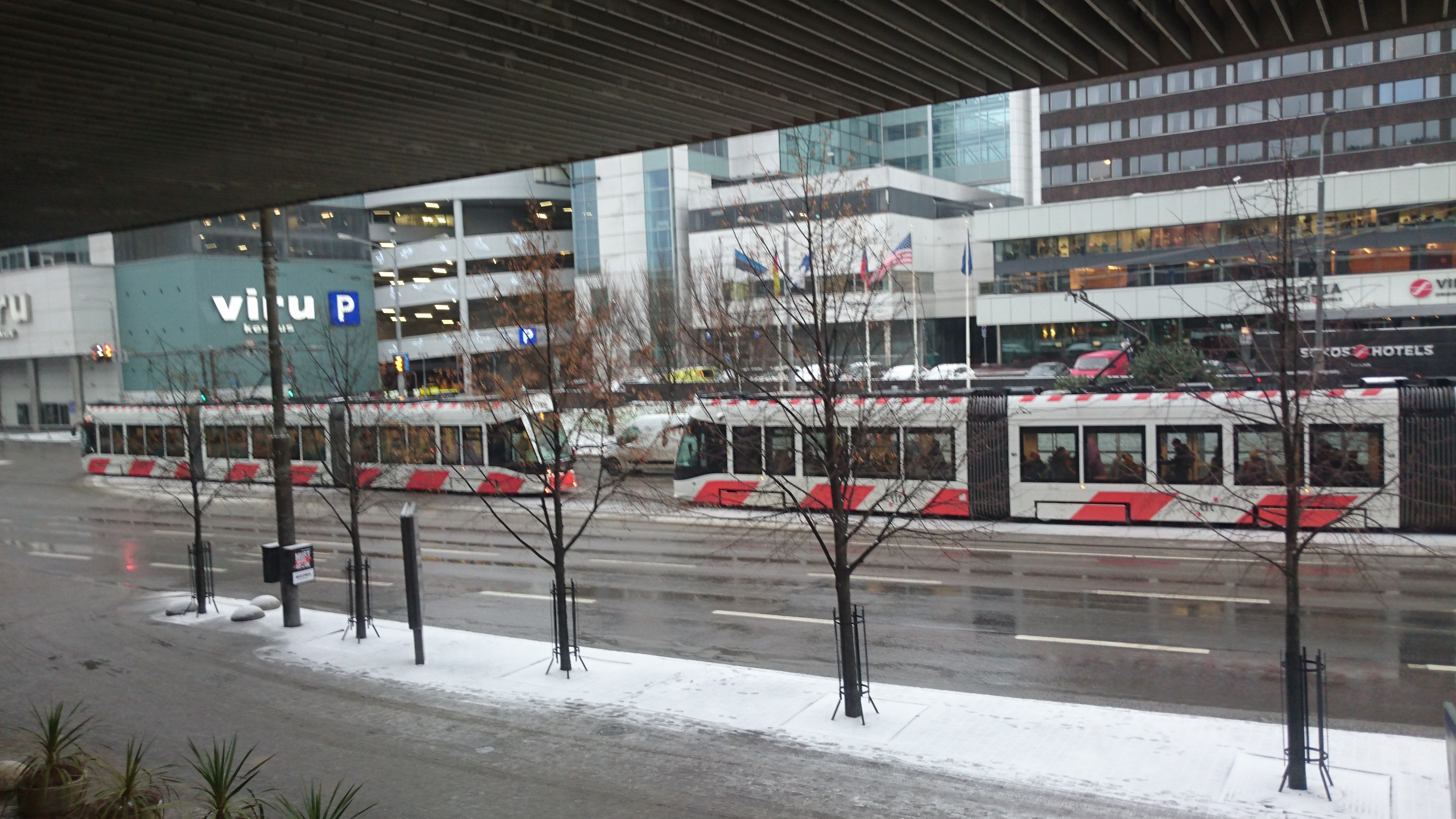 CAF Urbos trams in Viru Square